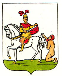 Mukacheve Ukraine Coat of Arms.